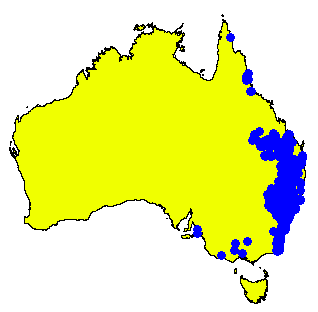 Angophora floribunda occurrence data downloaded from Australasian Virtual Herbarium using on 21 March 2019